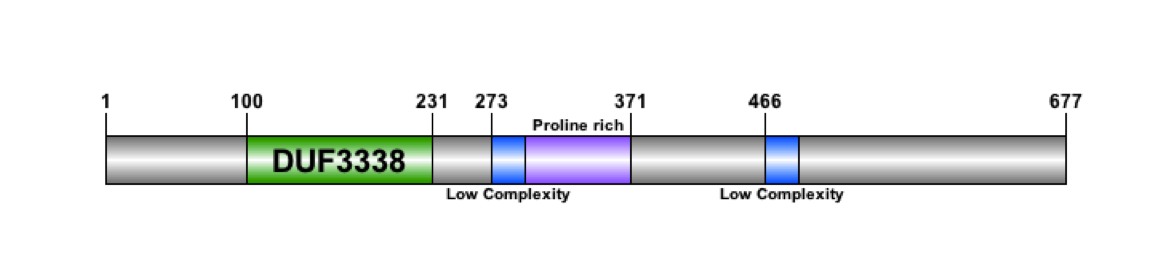 C1orf106 diagram